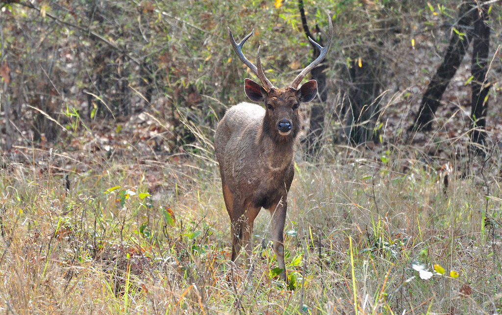 Sambar at Tadoba National Park.